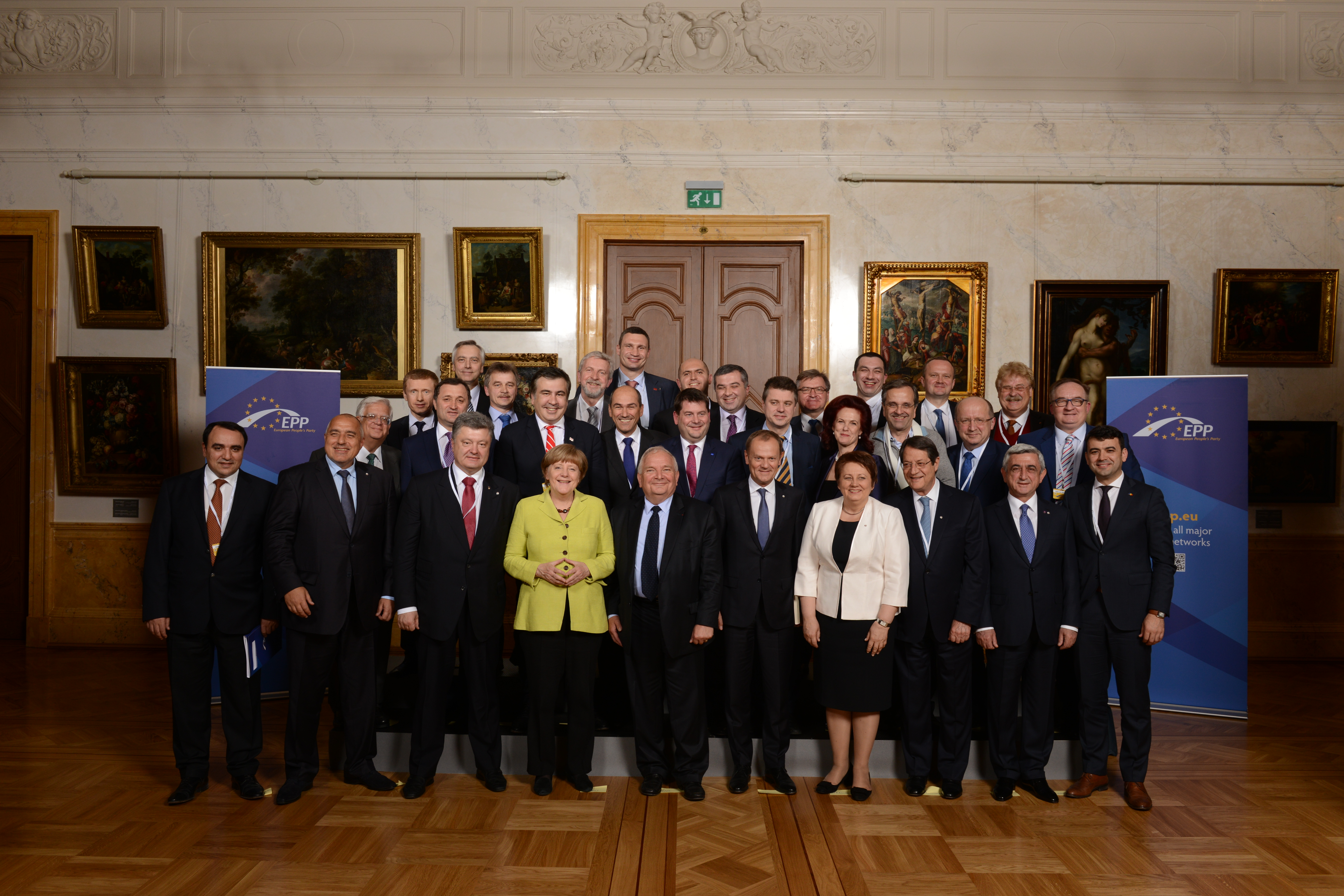 EPP EaP Leaders' Meeting - 21 May